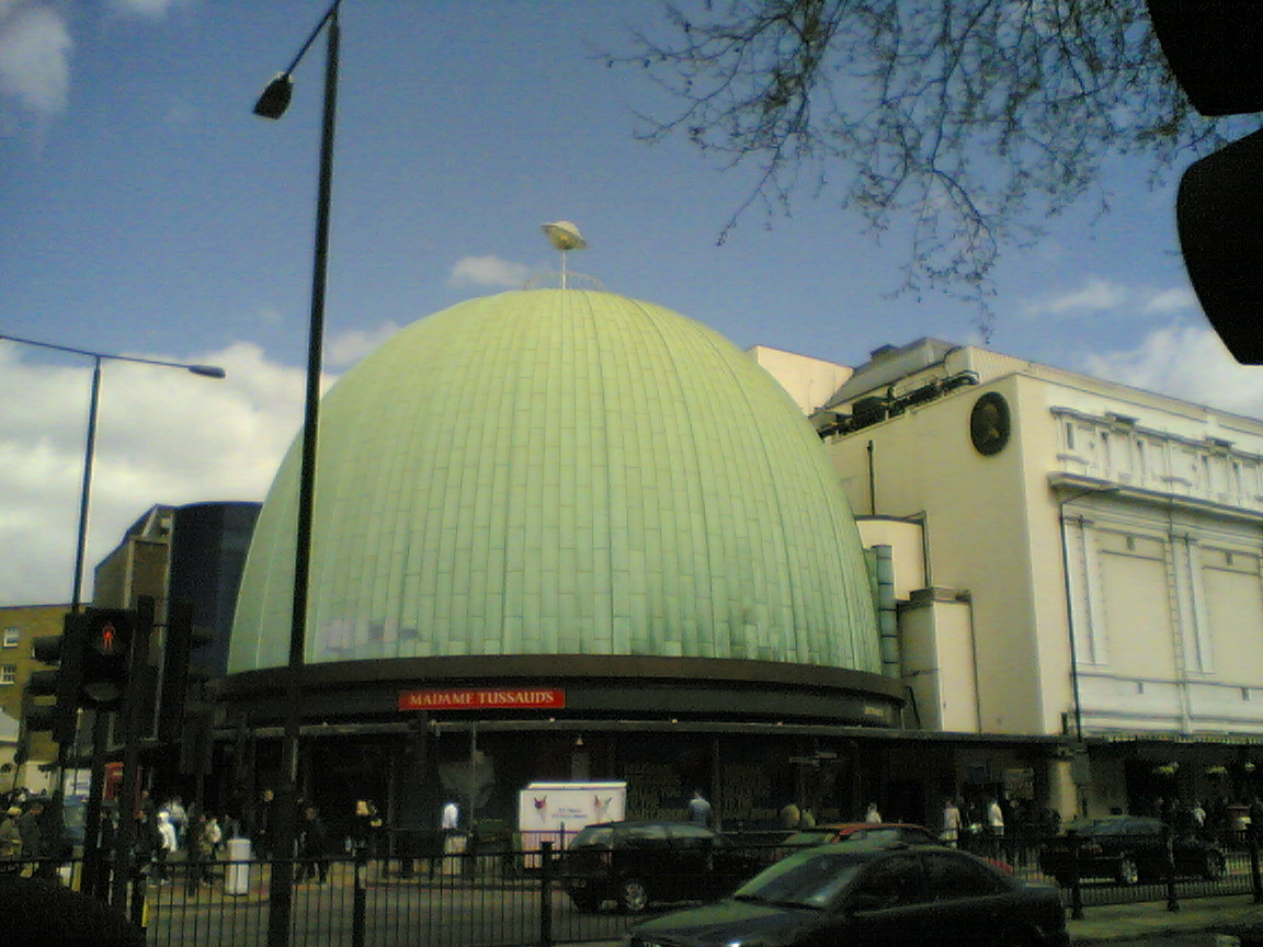 Taken on 29/04/2006 by me (Frankie Roberto). All rights released.